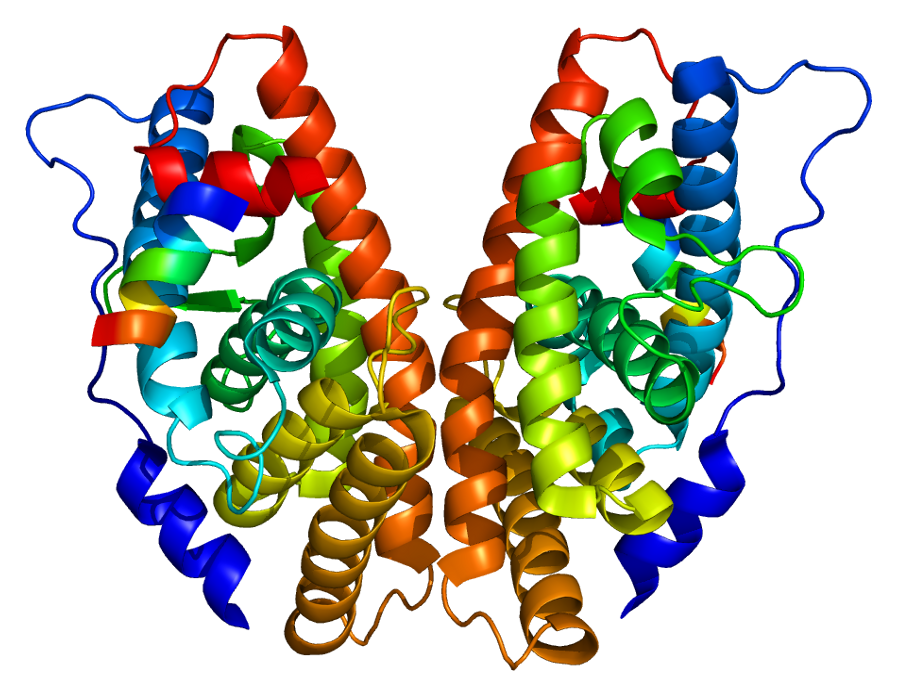 Structure of the ESRRG protein. Based on PyMOL rendering of PDB 1kv6.